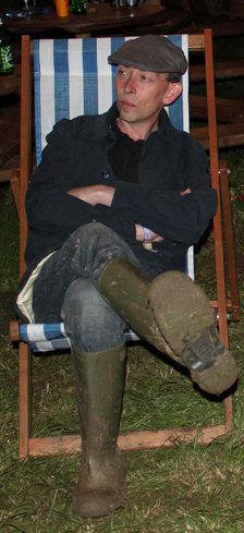 crop of Steve Lamacq sitting on a deck chair wearing wellies from photo of 'Steve Lamacq, Jo Whiley and Zane Lowe backstage at BBC Introducing stage'